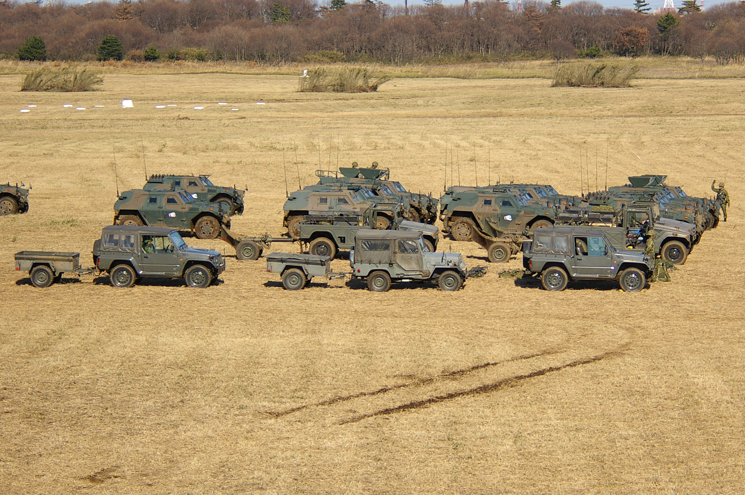 JGSDF 1st Airborne Brigade vehicles.Taken by Los688,in Narashino,Japan,at 07-Jan-2007,JGSDF 1st Airborne Brigade 2007 first drop manuver.PD-self 第一空挺団車両 2007年01月07日。習志野演習場で撮影。新旧73式小型トラック、軽装甲機動車、高機動車。